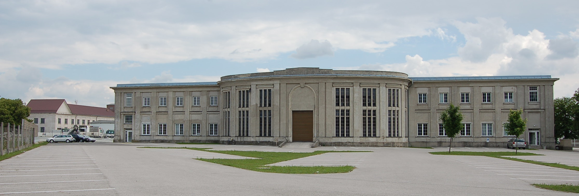 This administration building of a concrete manufacturing enterprise at Wöllersdorf, Lower Austria, is one of the few remains of the Feuerwerksanstalt (a cluster of ammunition factories until 1918).